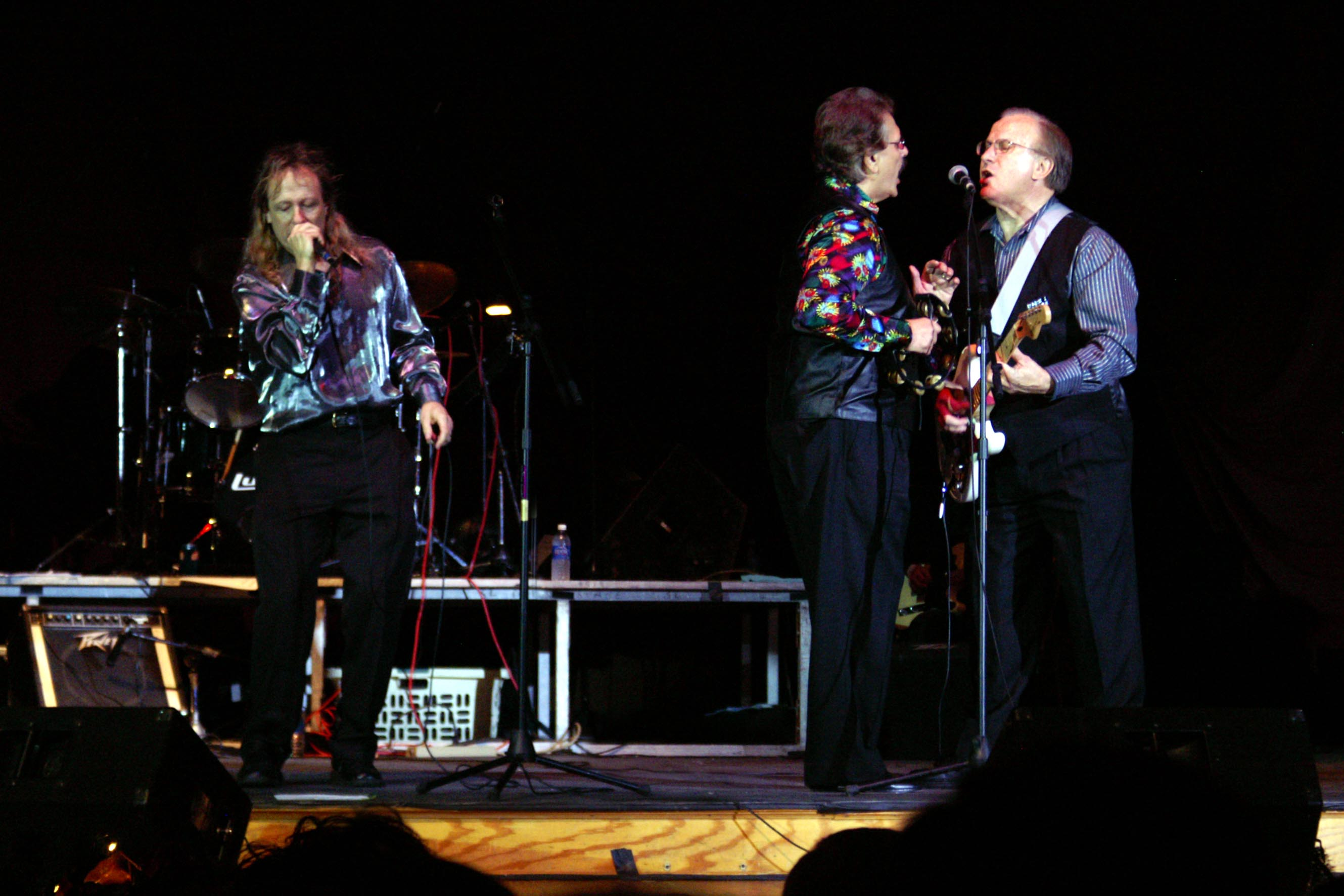 The 1910 Fruitgum Company performing live at the Caravan of Stars, in Henderson, Tennessee on November 17th, 2007. Pictured left to right are Floyd Marcus, Mick Mansueto and Frank Jeckell.